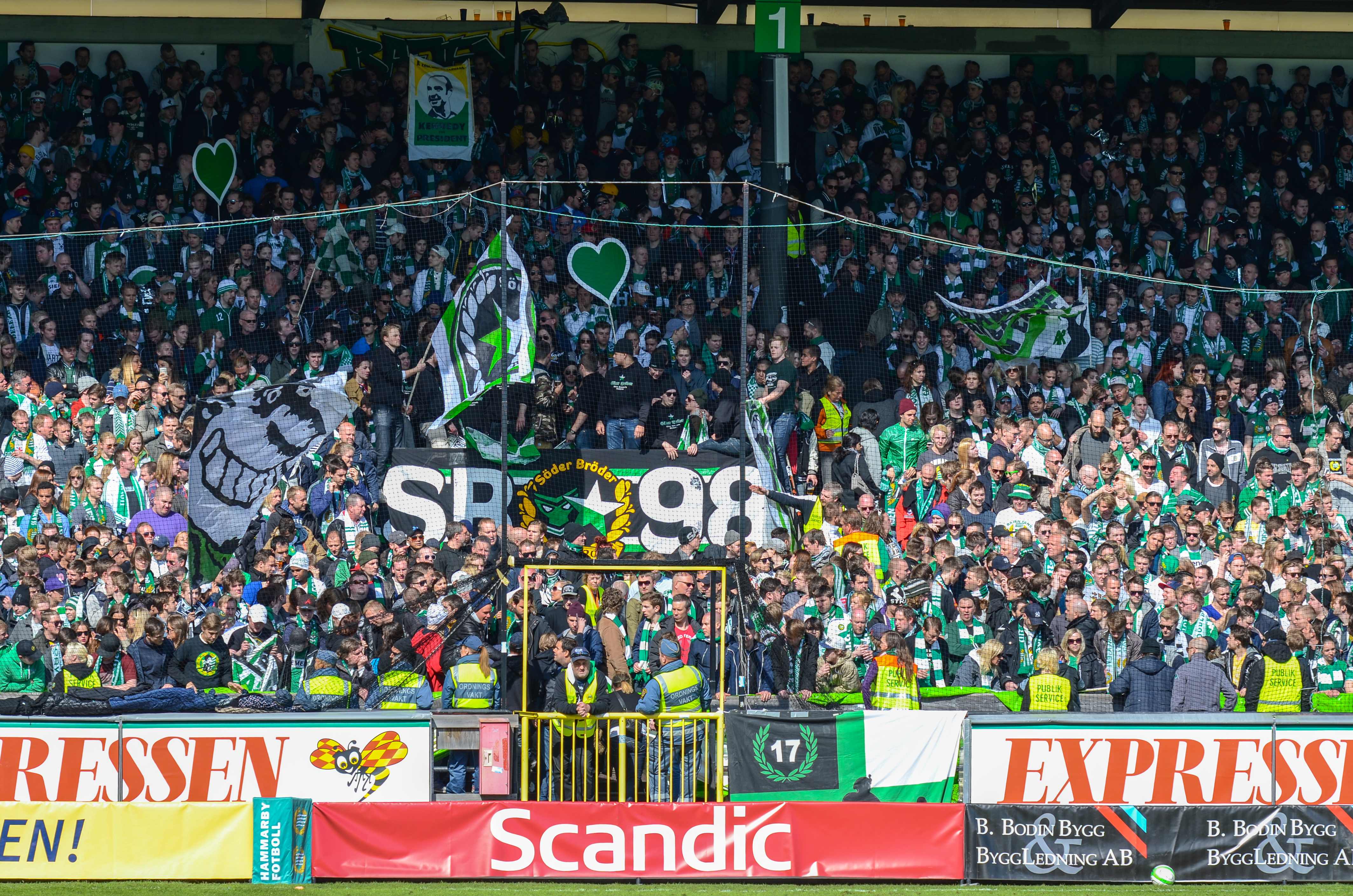 Hammarby supporters. Hammarby IF vs IFK Värnamo, April 14, 2013.